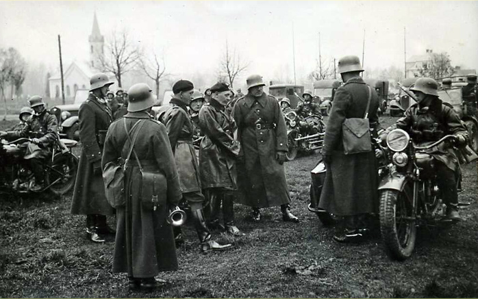 col. St. Maczek, col. W. Cieśliński, mjr, F. Skibiński - 10 psk, Zaolzie 1938.